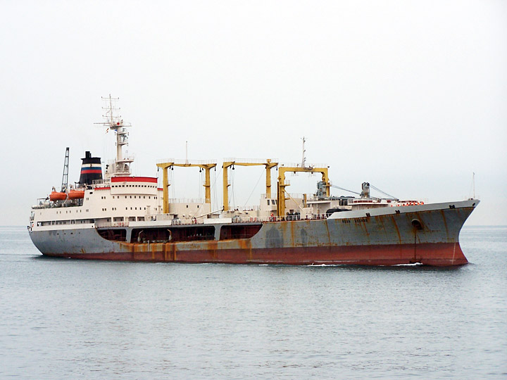 Boris Chilikin-class fleet oiler Ivan Bubnov 23 January 2009